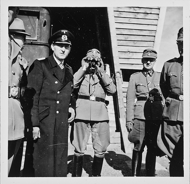 Image from "Photo Album from Terboven's journey to Nothern Norway and Finland 10–27 July 1942" (Mit dem Reichskommissar nach Nordnorwegen und Finnland 10. bis 27. Juli 1942), 375 images uploaded to www. by Riksarkivet (National Archives of Norway) 2012. See scanned album here